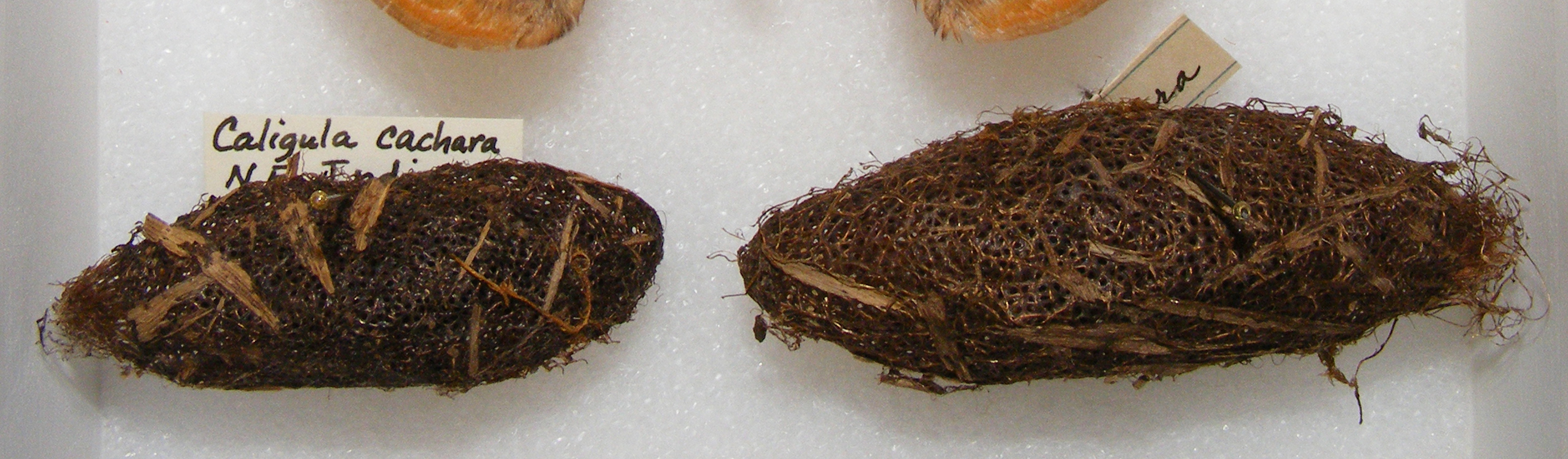 Caligula cachara cocoon from the Texas A&M University Insect Collection